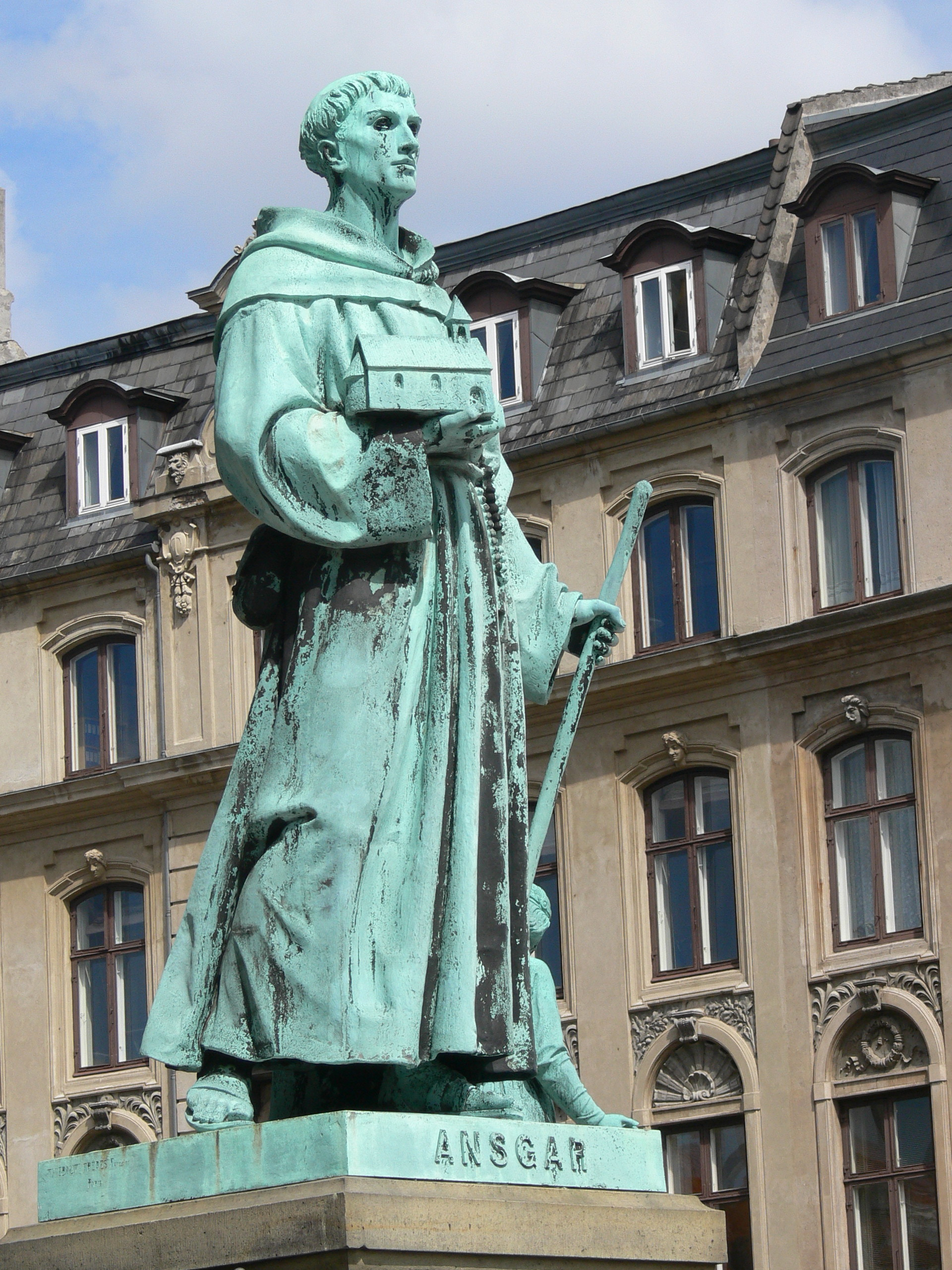 Marmorkirken ( Copenhagen ). Statue of Saint Ansgar.